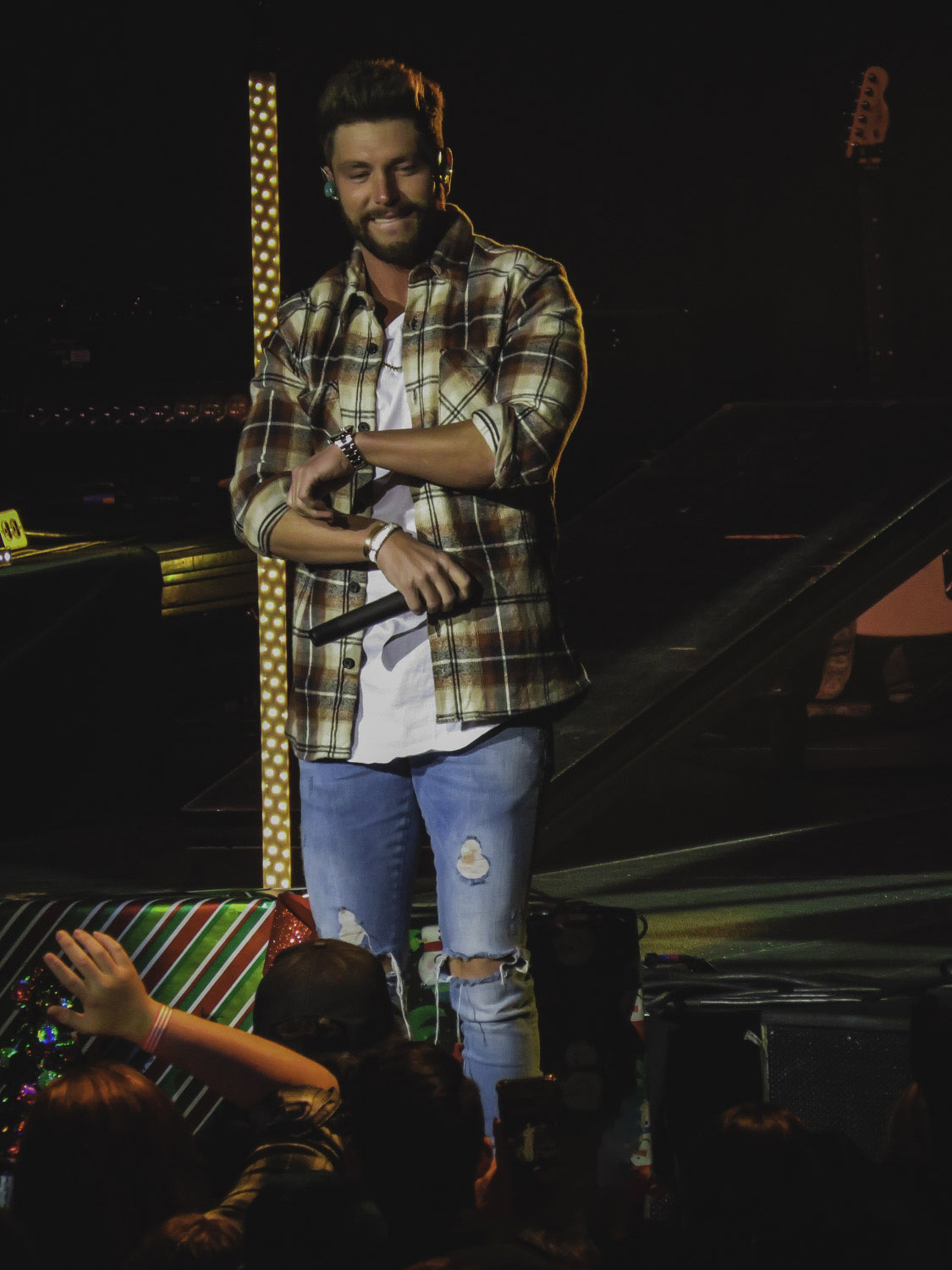 Chris Lane performs at 98.5 KYGO's CHRIStmas Jam at the 1STBANK Center in Broomfield, Colorado on December 14, 2017.